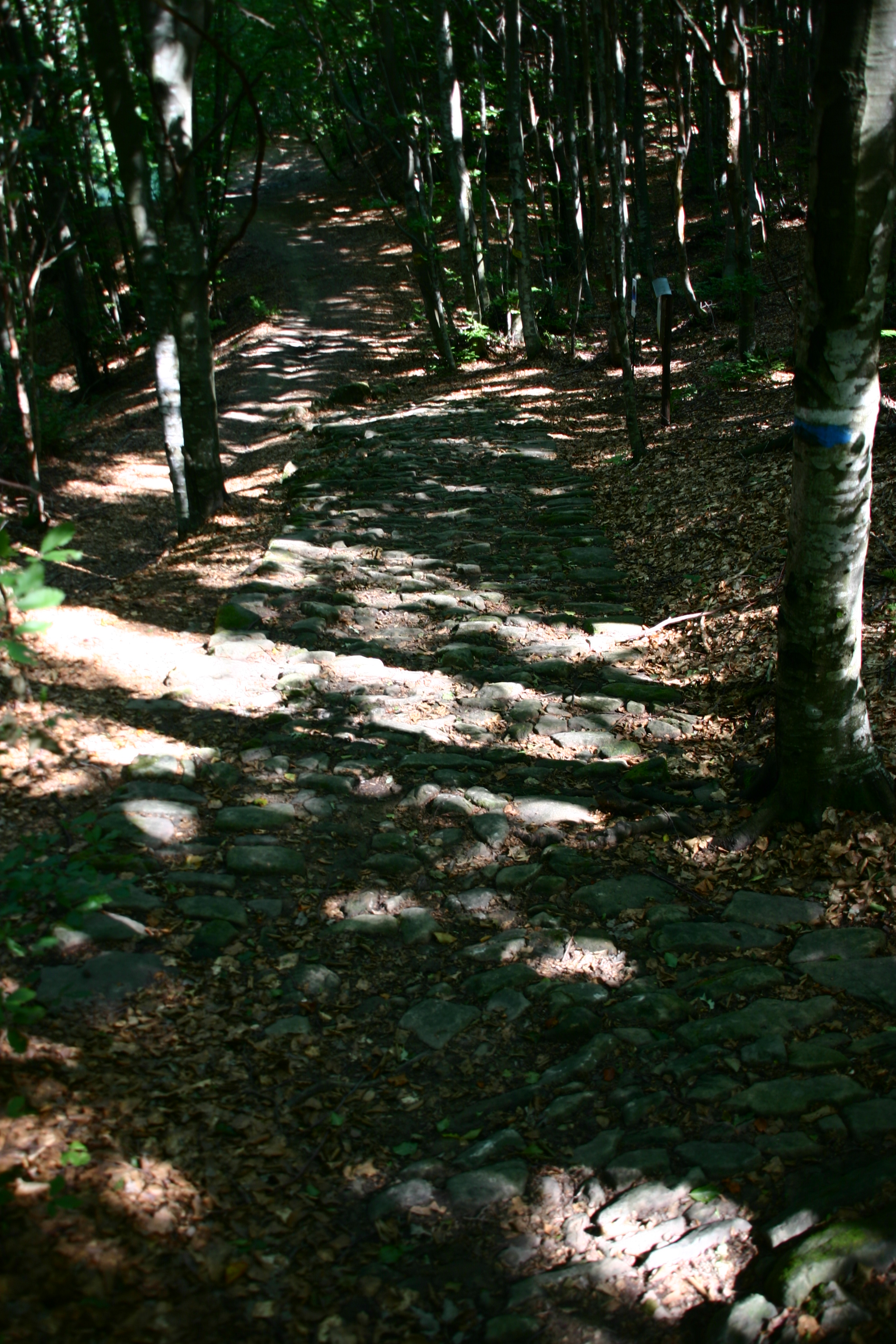 Via Flaminia militare at Futa pass